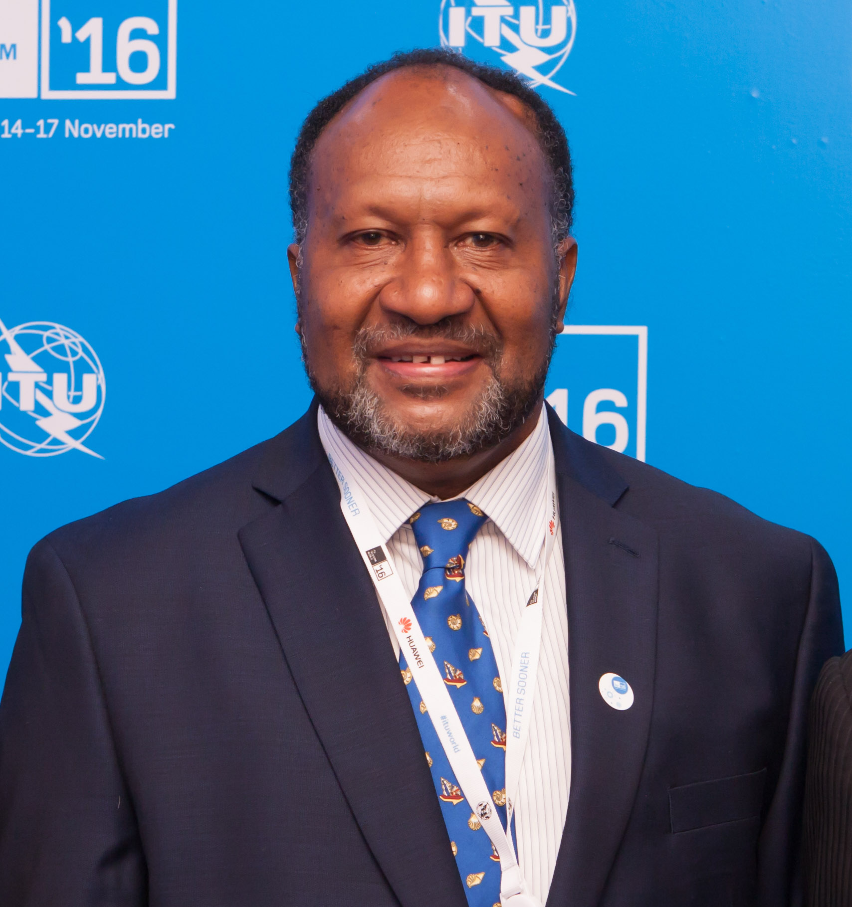 Charlot Salwai Tabimasas, Prime Minister of Vanuatu and Minister responsible for ICT and Telecommunications at the opening ceremony of ITU Telecom World 2016 in Bangkok.